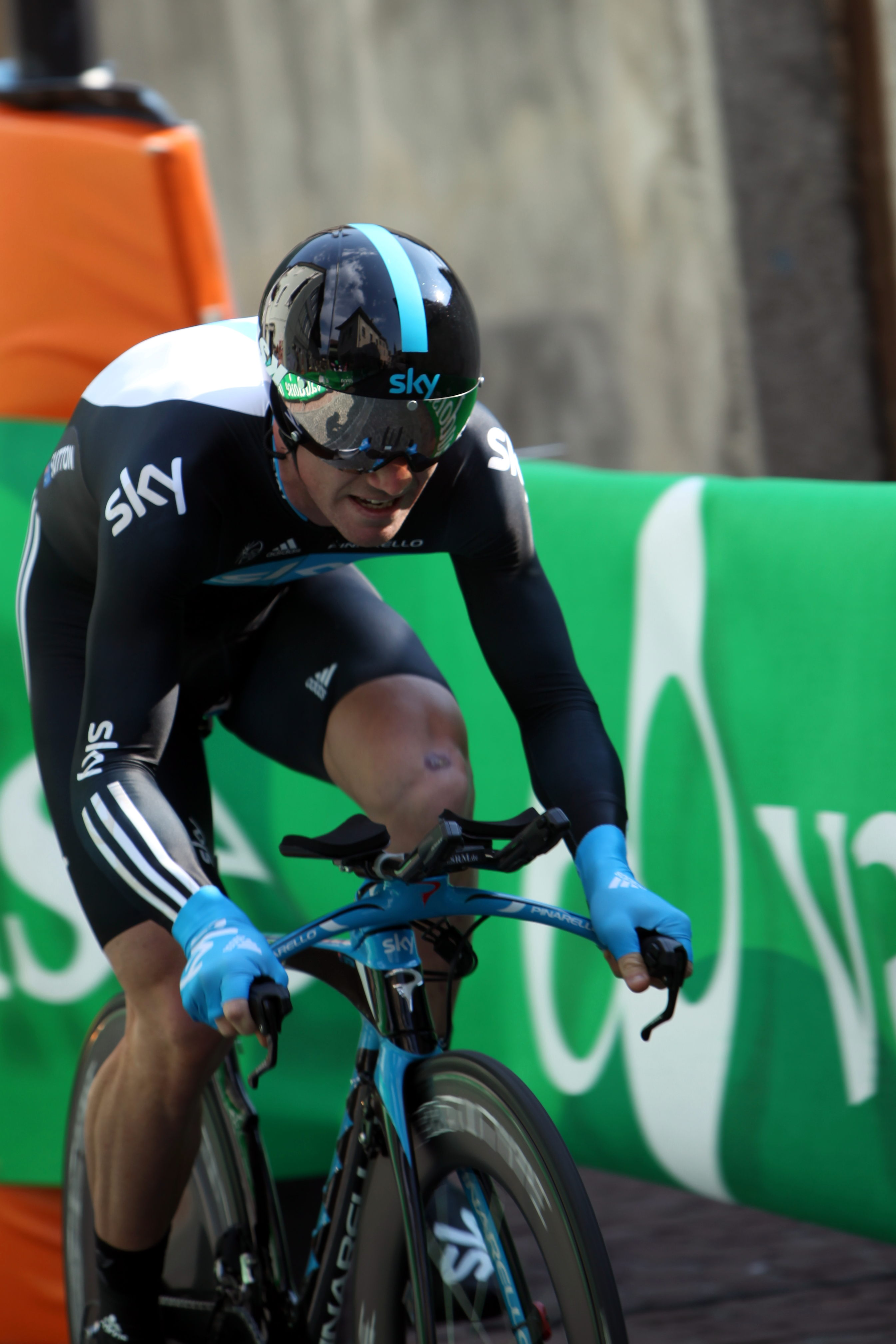 Christopher Sutton at the prologue of the Tour de Romandie 2011